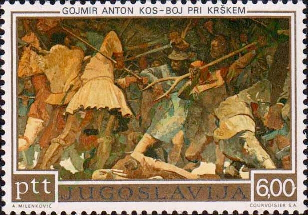 Battle of Krsk by Gojmir Anton Kos